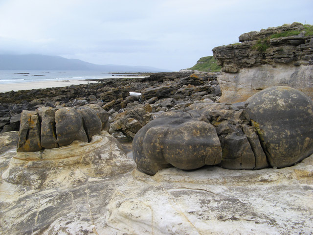 Concretions in the Valtos Sandstone These bizarre ball-shaped structures arise from cementing of the friable sandstone by calcite in solution. The overlying beds of sandstone, seen in the right of the picture, are more completely cemented, making them harder to erode. It is widely held that the beautiful, white sand of the beaches in this area of the Highlands and Islands are due in part to the erosion of these very clean sandstones.